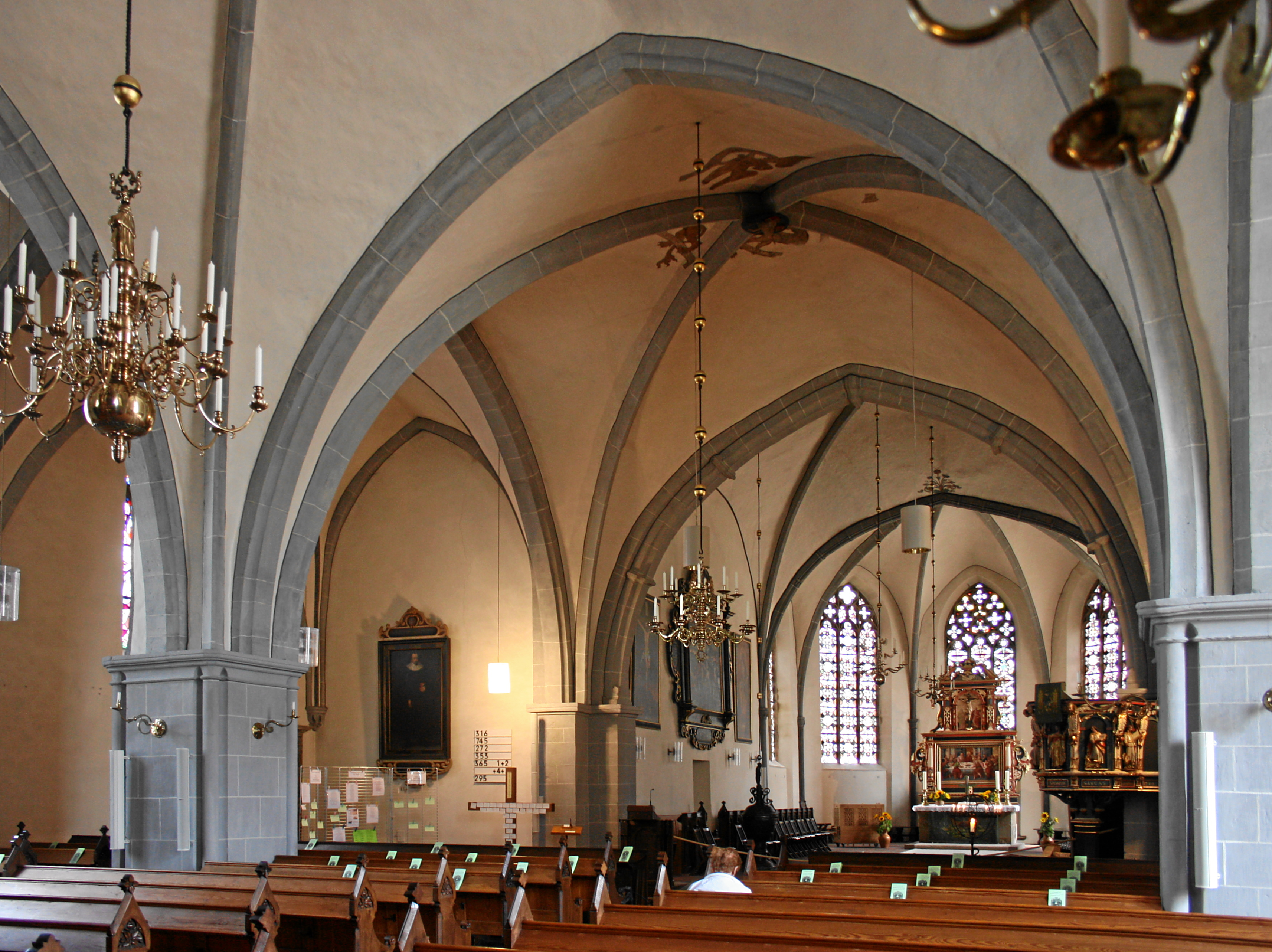 Rinteln, Germany. Roman-catholic parish church Saint Nicolai, nave towards East.